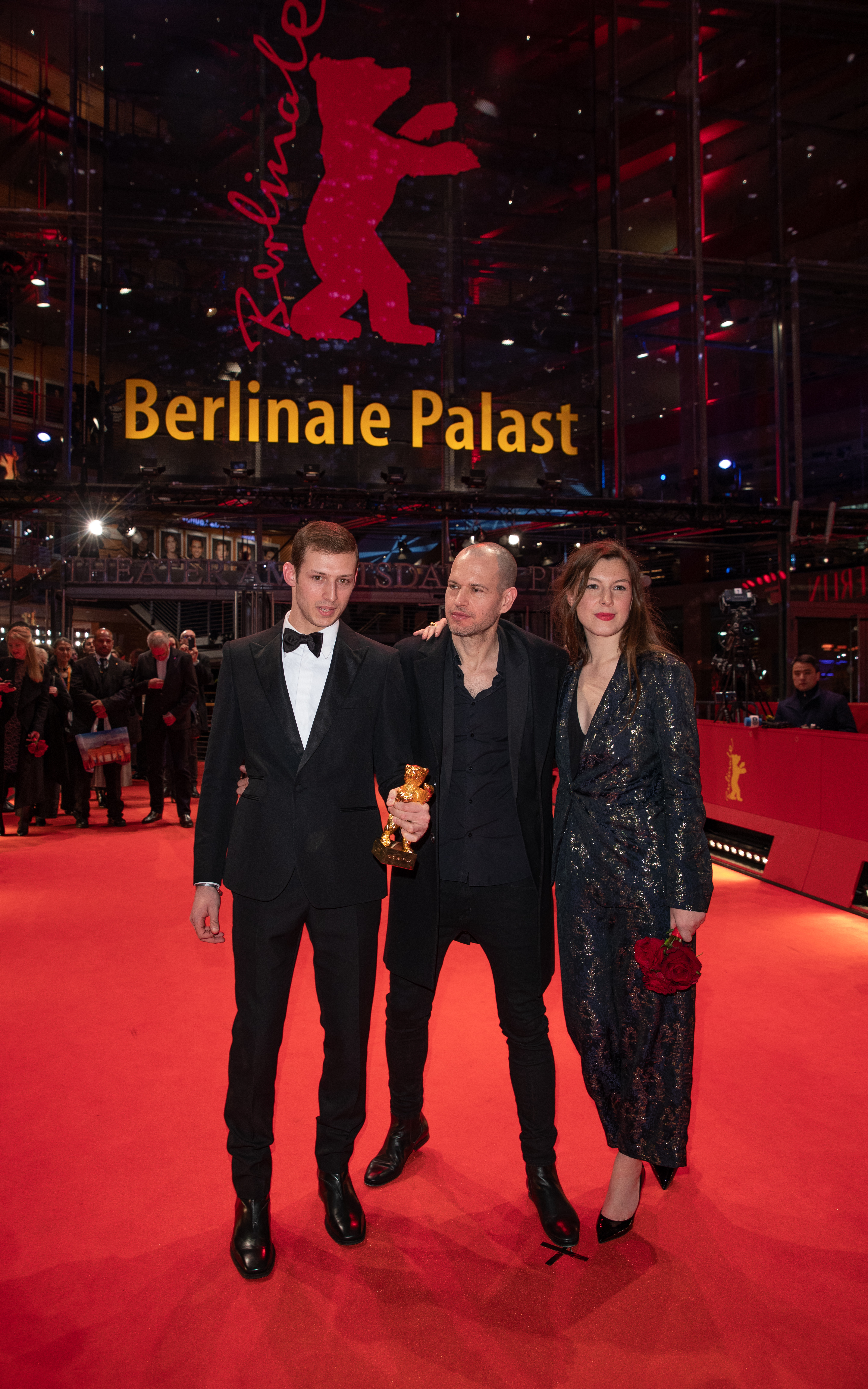 Tom Mercier, Nadav Lapid, Louise Chevillotte with the golden bear for the film "Synonyms" at the Berlinale 2019